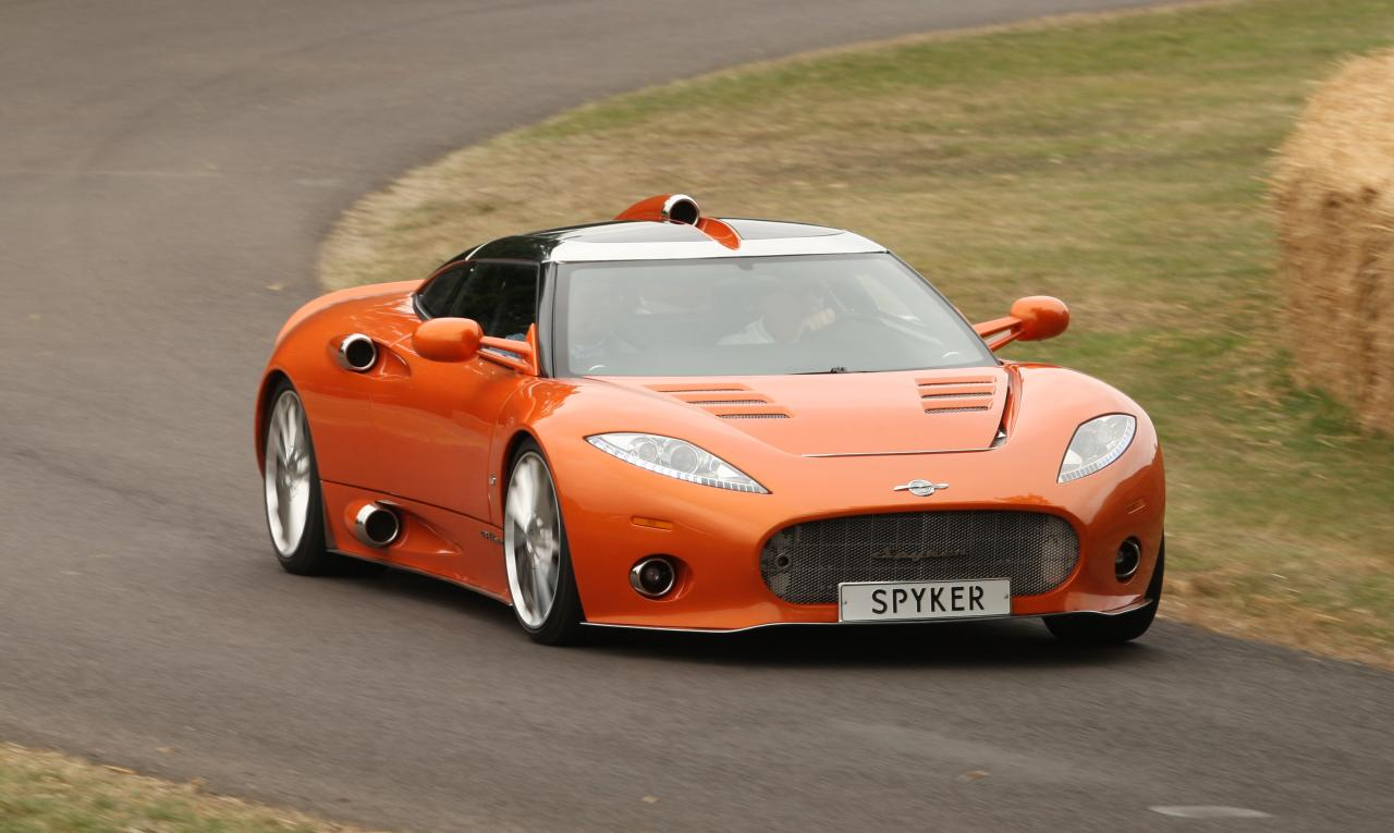 pictures from friday at fos